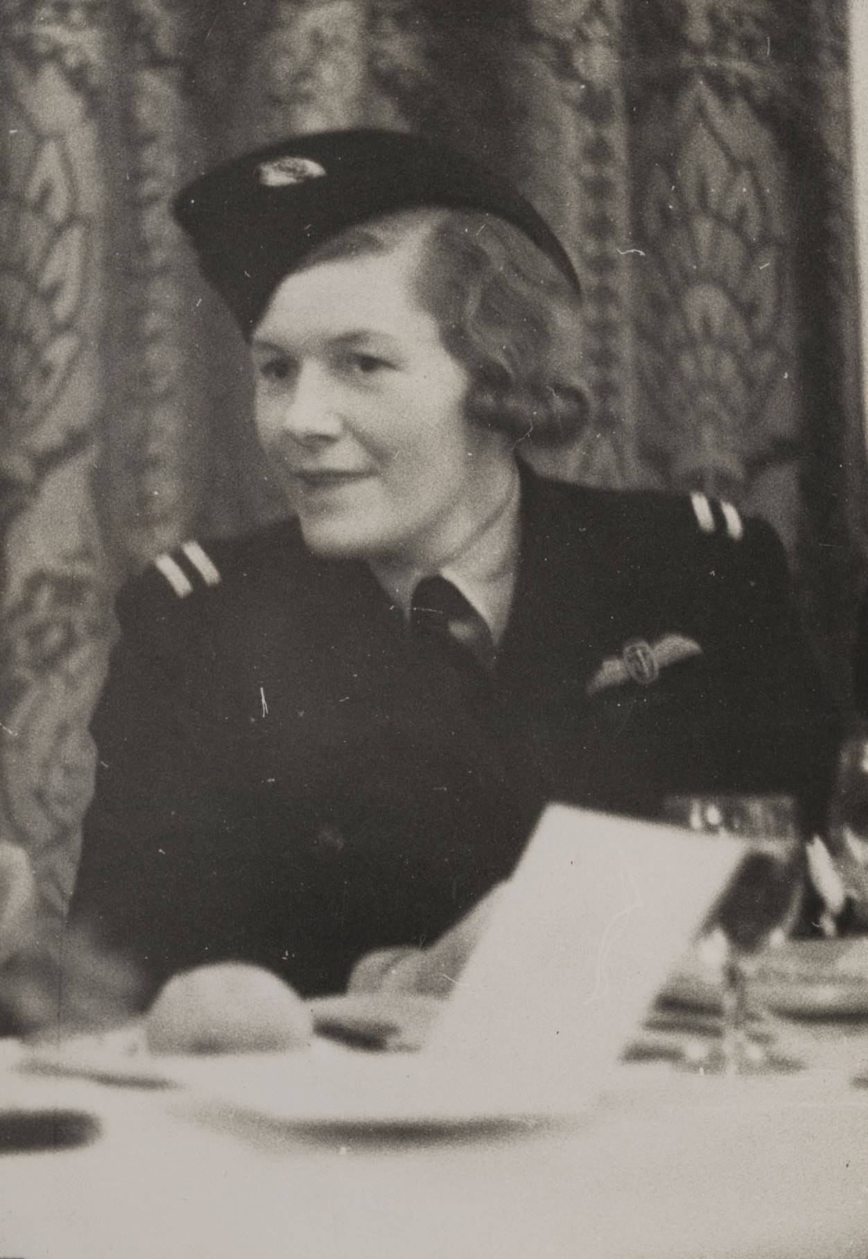 Photograph of Pauline Gower, taken at Women's Engineering Society Awards Dinner